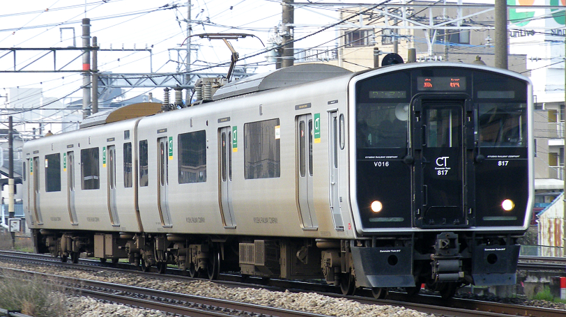 JR Kyushu 817-0 series EMU on the Kagoshima Line